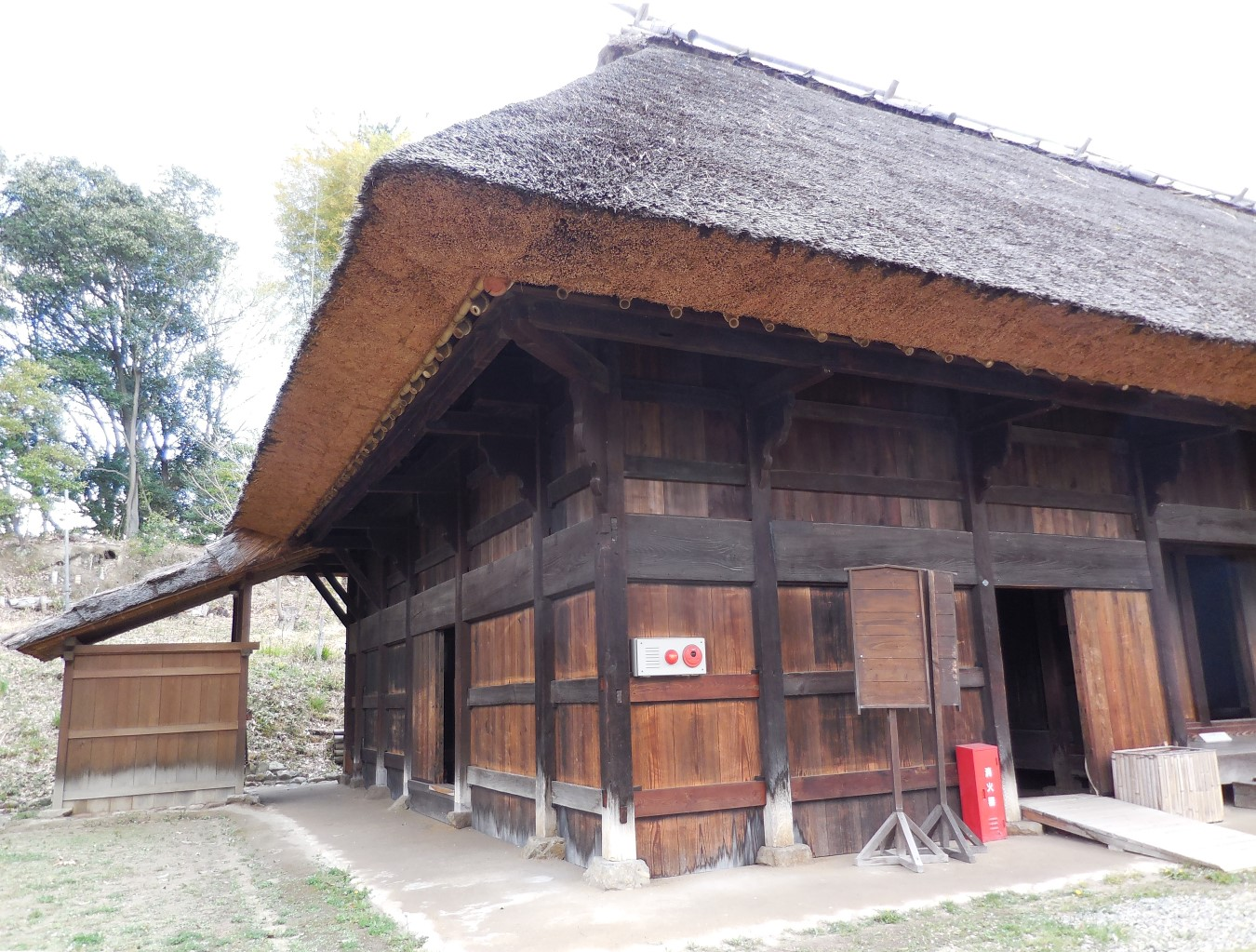 Toyonaka Farmhouse